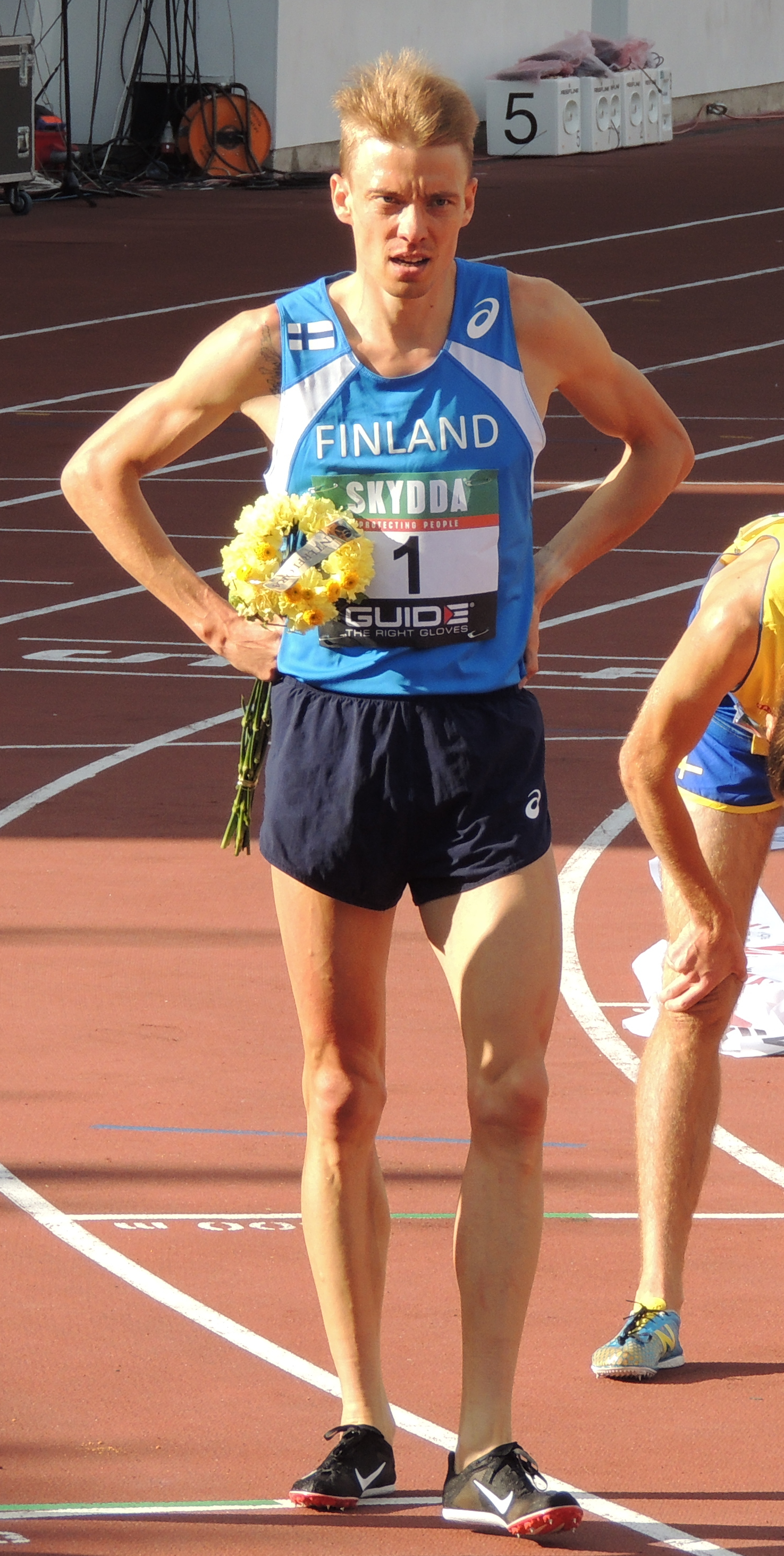 Jukka Keskisalo after winning at the 2014 Finland-Sweden athletics international.